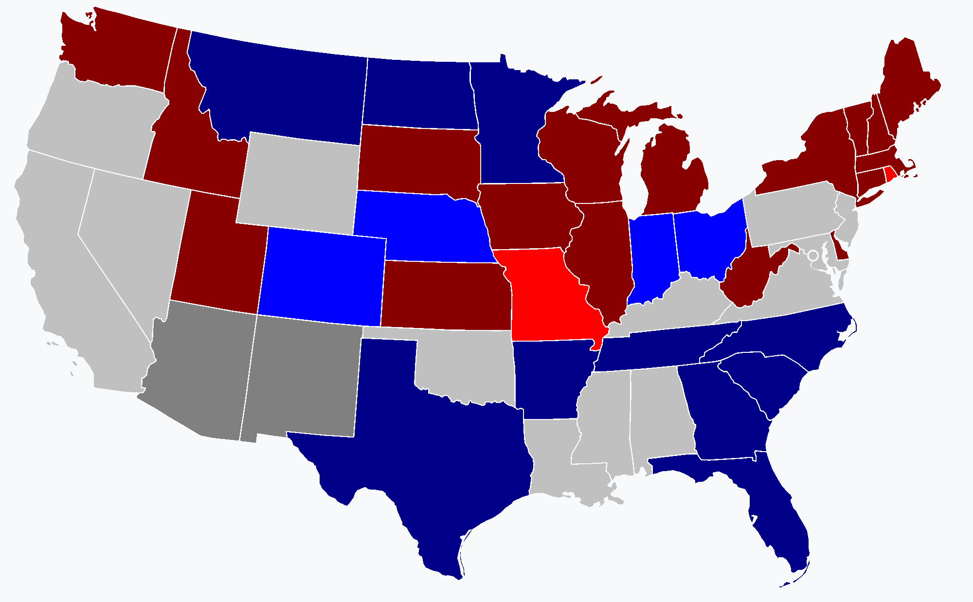 A map showing the results of the 1908 United States Gubernatorial elections